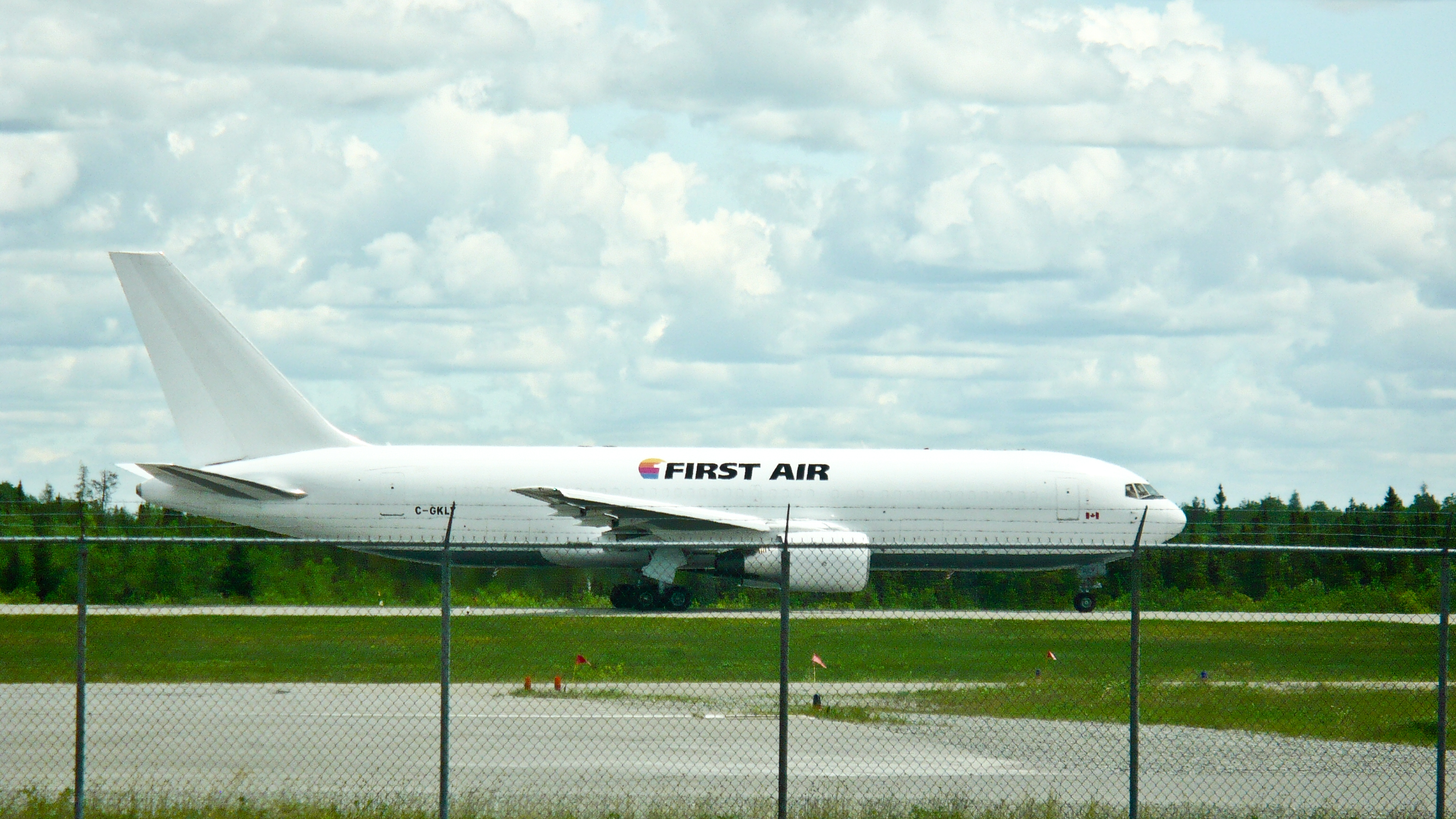 First Air's Boeing 767-223SF (C-GKLY) at Val-d'Or Airport (CYVO).